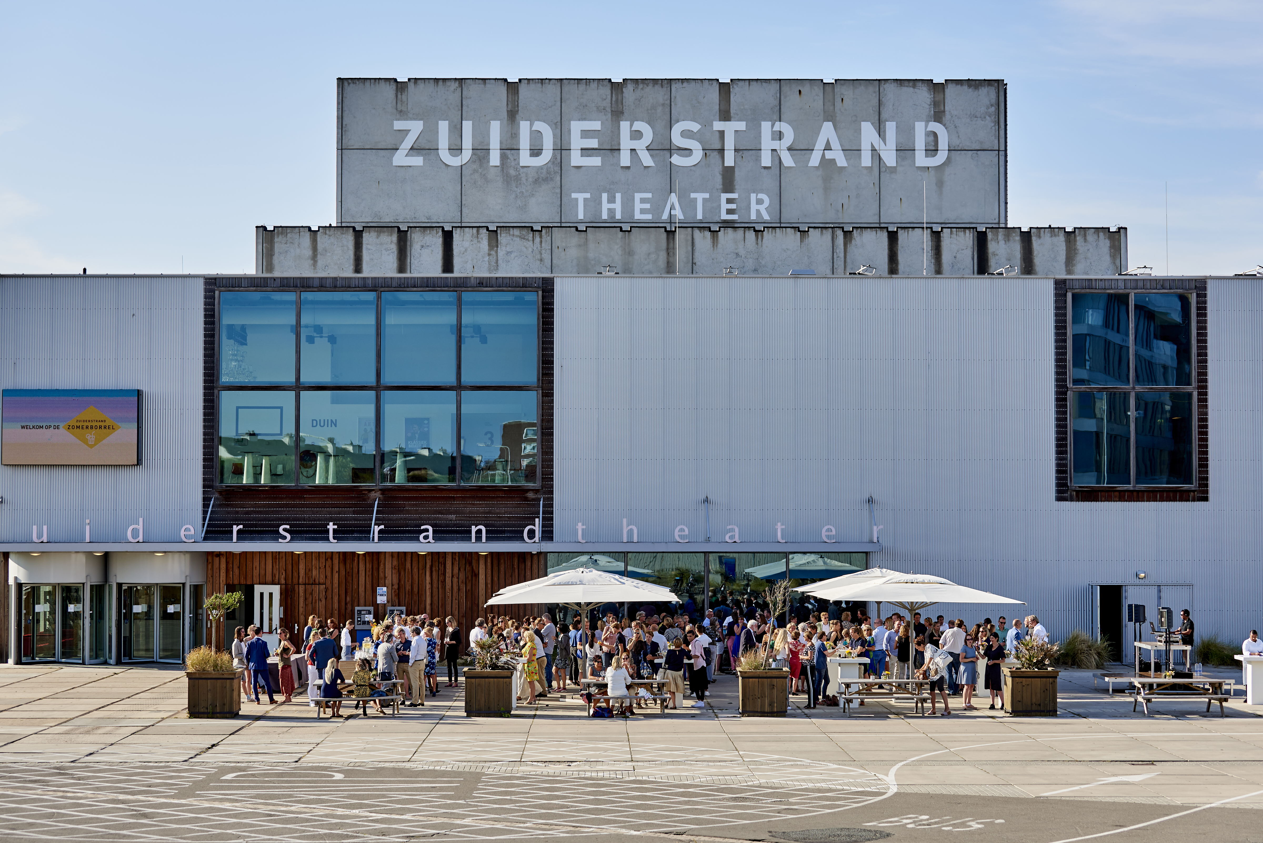 Zomerborrel Zuiderstrandtheater